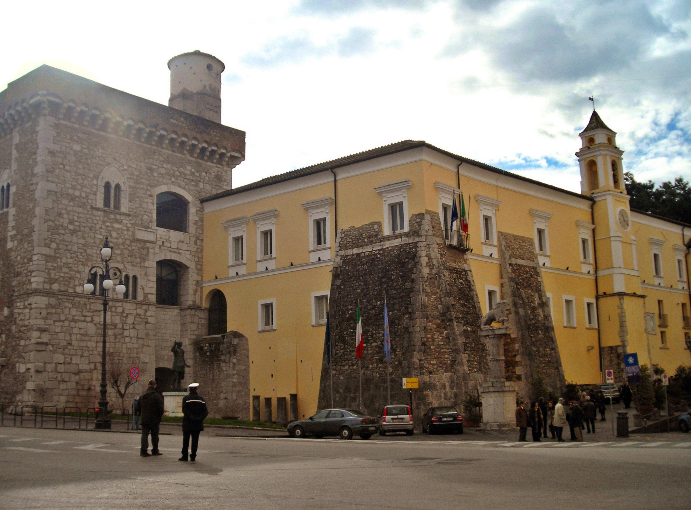 Rocca dei Rettori (also known as Castle of Manfredi), a castle in Benevento, southern Italy. It currently houses the Museum of the Samnium.